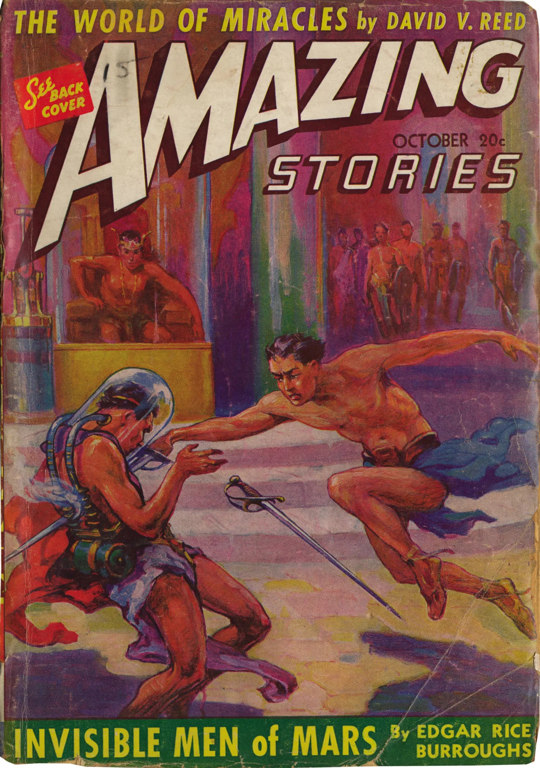 Cover of Amazing Stories, October 1941